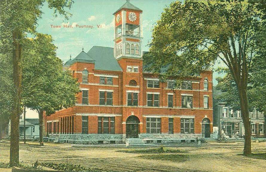 Town Hall, Poultney, Vermont; from a c. 1910 postcard published by the R. G. McClellen Company, Poultney, Vermont.